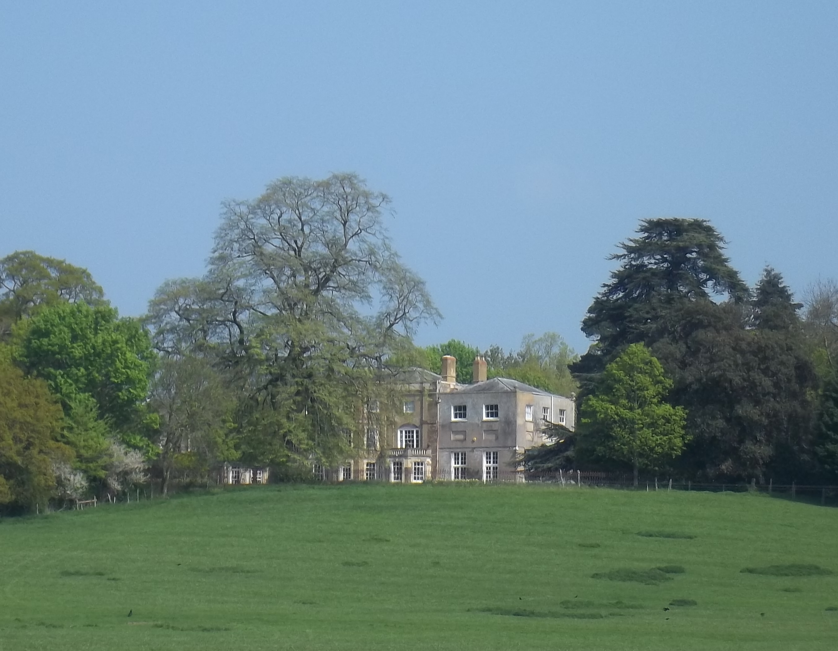 Idlicote House, Idlicote, Warwickshire. A Grade II listed country house.